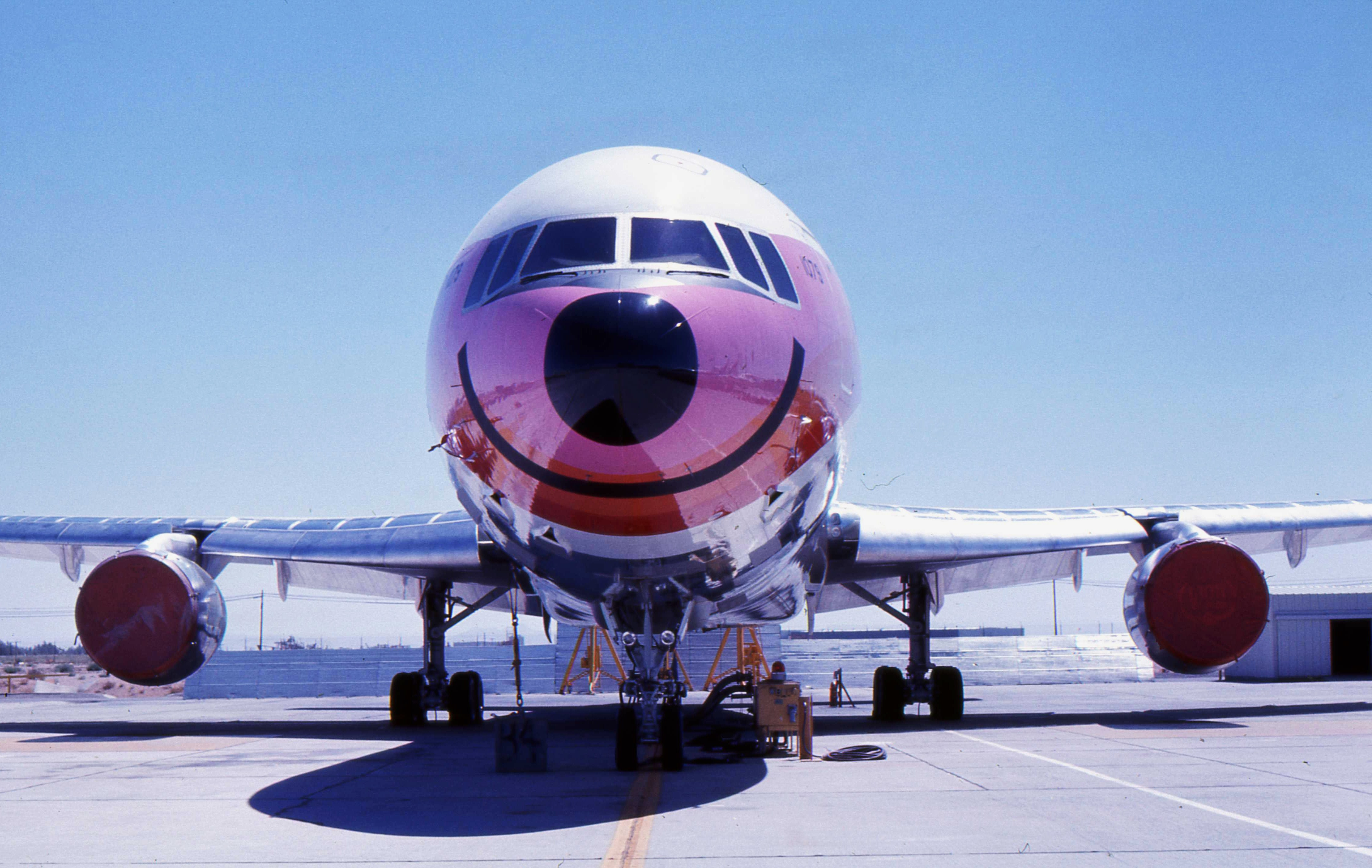 Pacific Southwest Airlines Lockheed L-1011 TriStar N10114, c/n 1079, taken at the Lockheed plant in Palmdale before delivery.